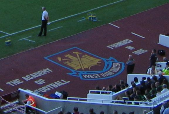 Cropped from Image:West Ham match Boleyn Ground 2006.jpg